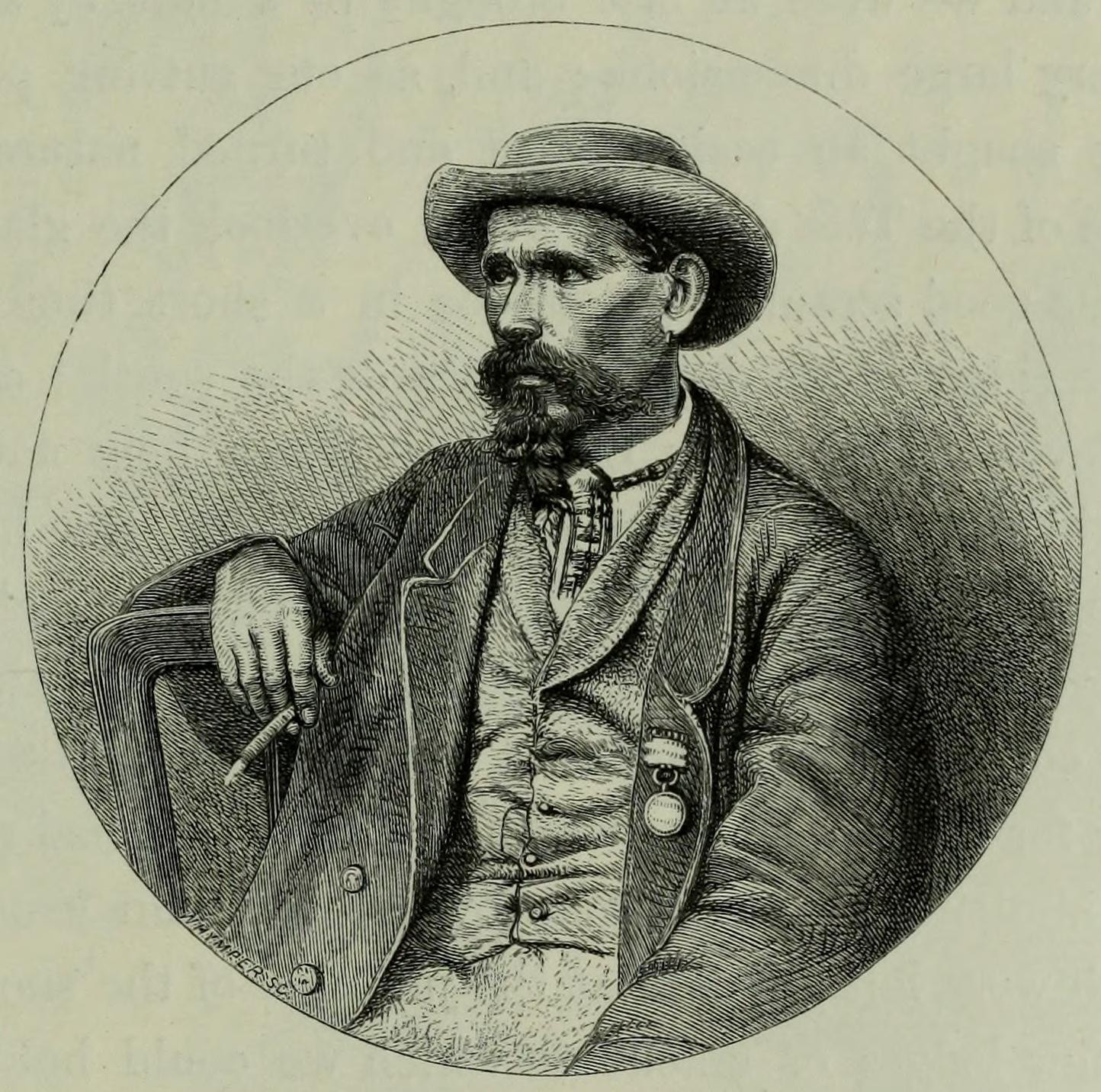 Image on page 123 of Scrambles amongst the Alps